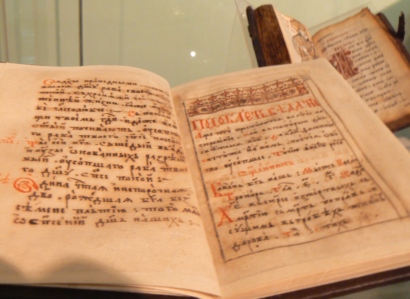 The Book of hours, transcribed by Sophronius of Vratsa, 1765 year. Exhibit of the National History Museum of Bulgaria